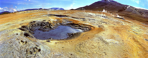 This is a photo of Hverir in Iceland Taken with a Widelux panoramic camera